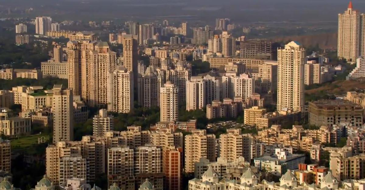 Mumbai, India